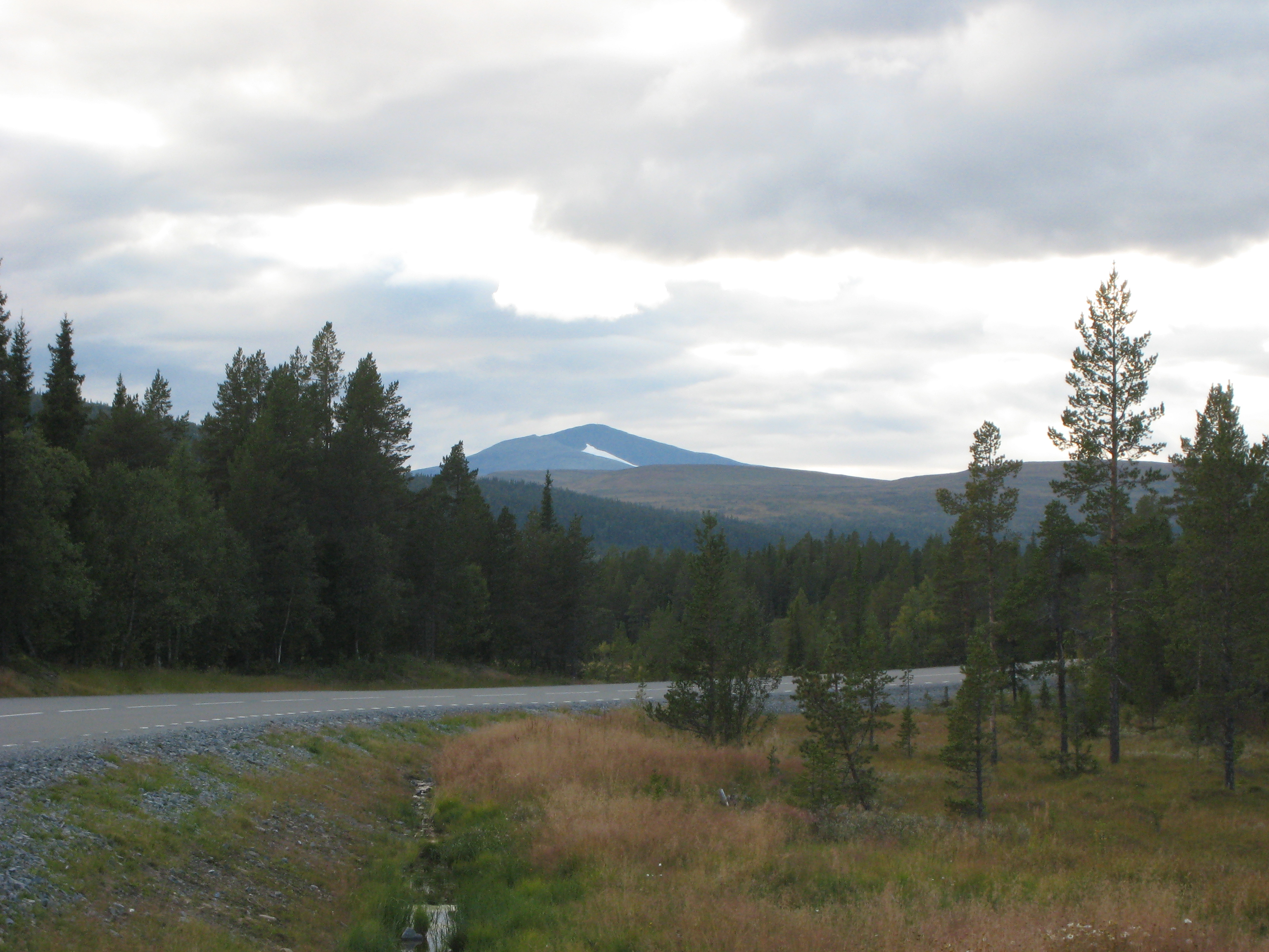 Länsväg Z 535